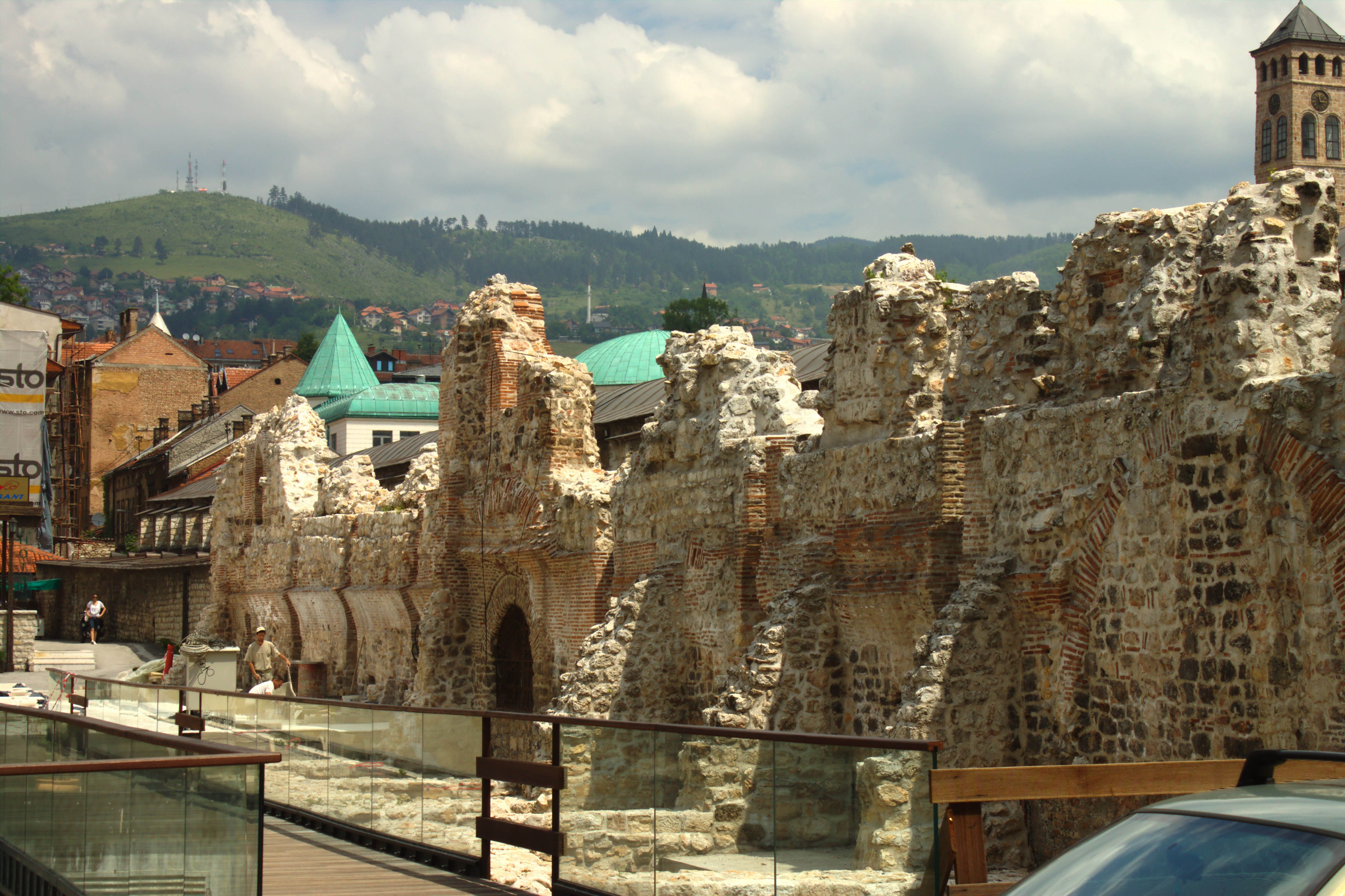 Part of the old bazar in the central part of Sarajevo near Baščaršija, BiH